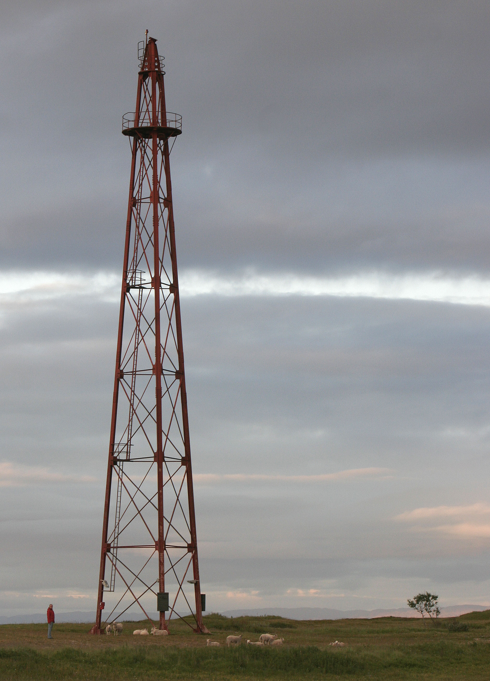 Fortøyningsmasta kan fortsatt sees i Vadsø. Dirigible launch tower used by the airship Norge in its 1926 polar expedition, with Roald Amundsen and Umberto Nobile. Vadsø, Noprway.